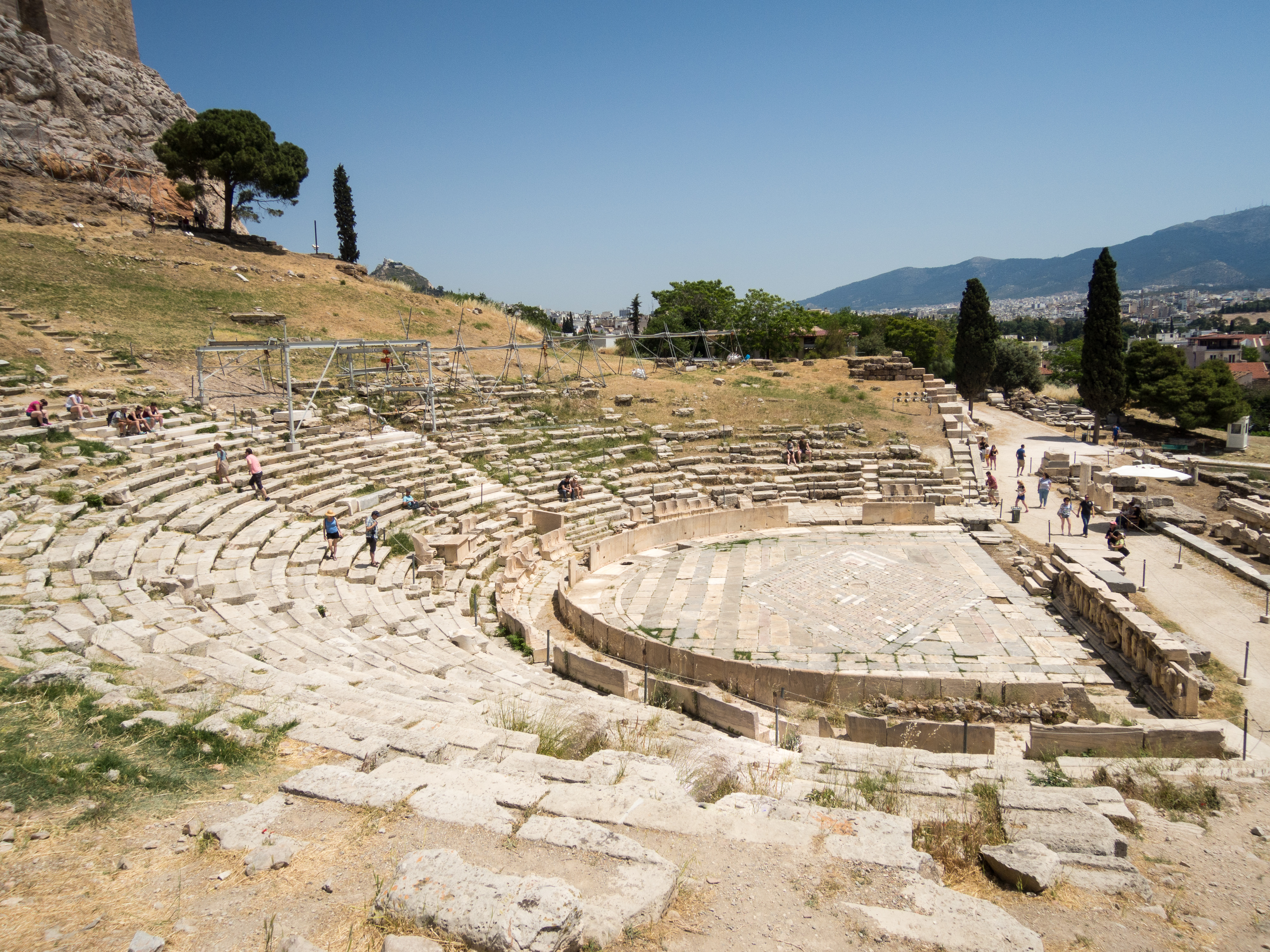 One of the most famous cities in europe. Eine der populärsten Städte in Europa.